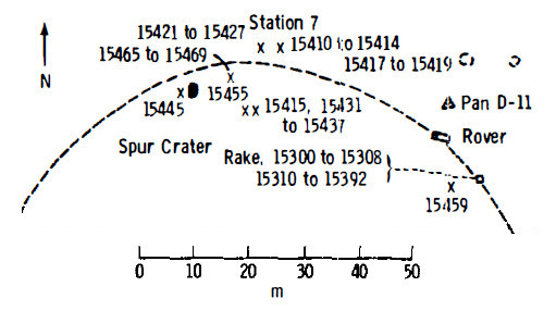 Figure 5-98 (edited slightly). Planimetric map of Apollo 15 Geology Station 7 at Spur crater. X indicates sample locations, 5-digit numbers are LRL sample numbers, rectangle is lunar rover (dot indicates TV camera), black spots are large rocks, dashed lines are crater rims or other topographic features, and triangles are panorama stations.